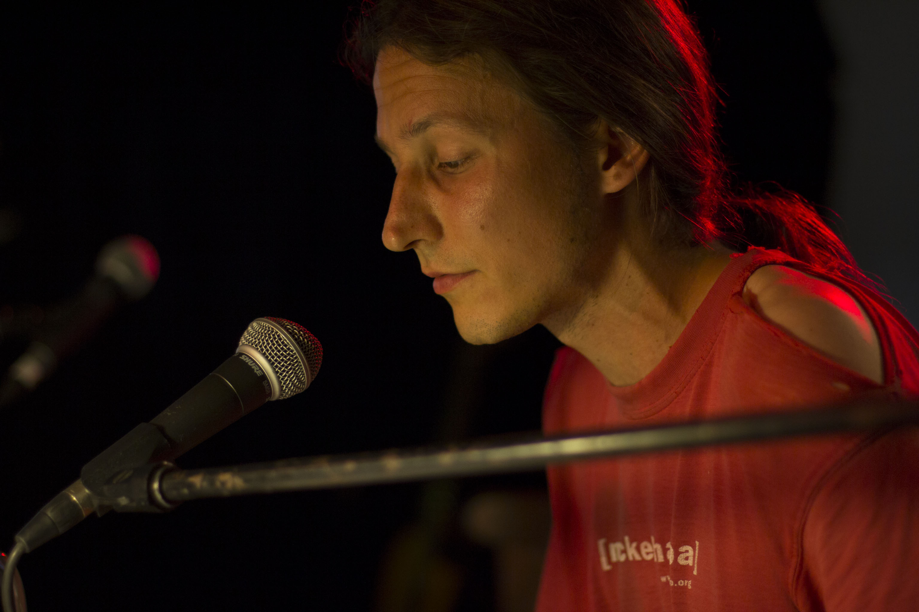 Photo of the German author Matthias Boosch reading.